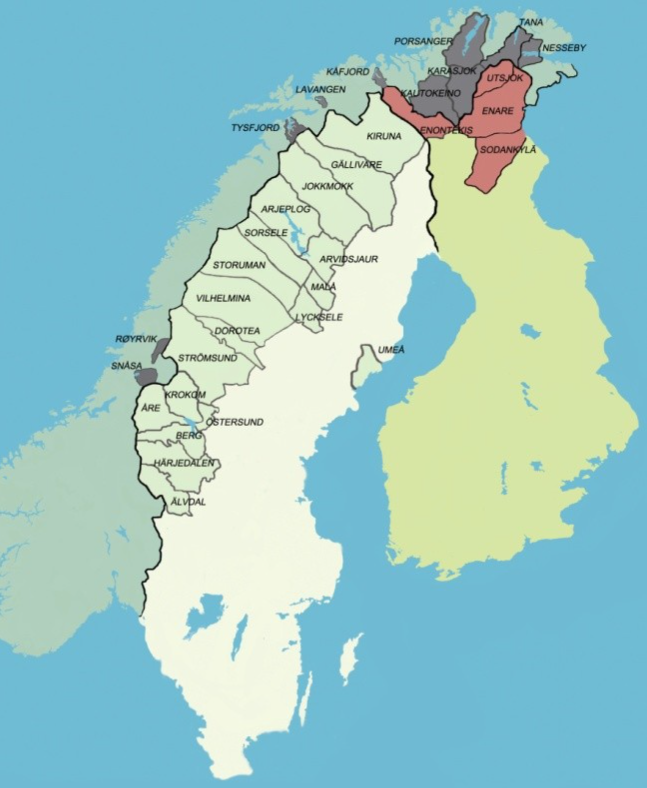 The file is a map over all municipalities in Norway, Sverige and Finland falling under the administrative are for the Sami languages.